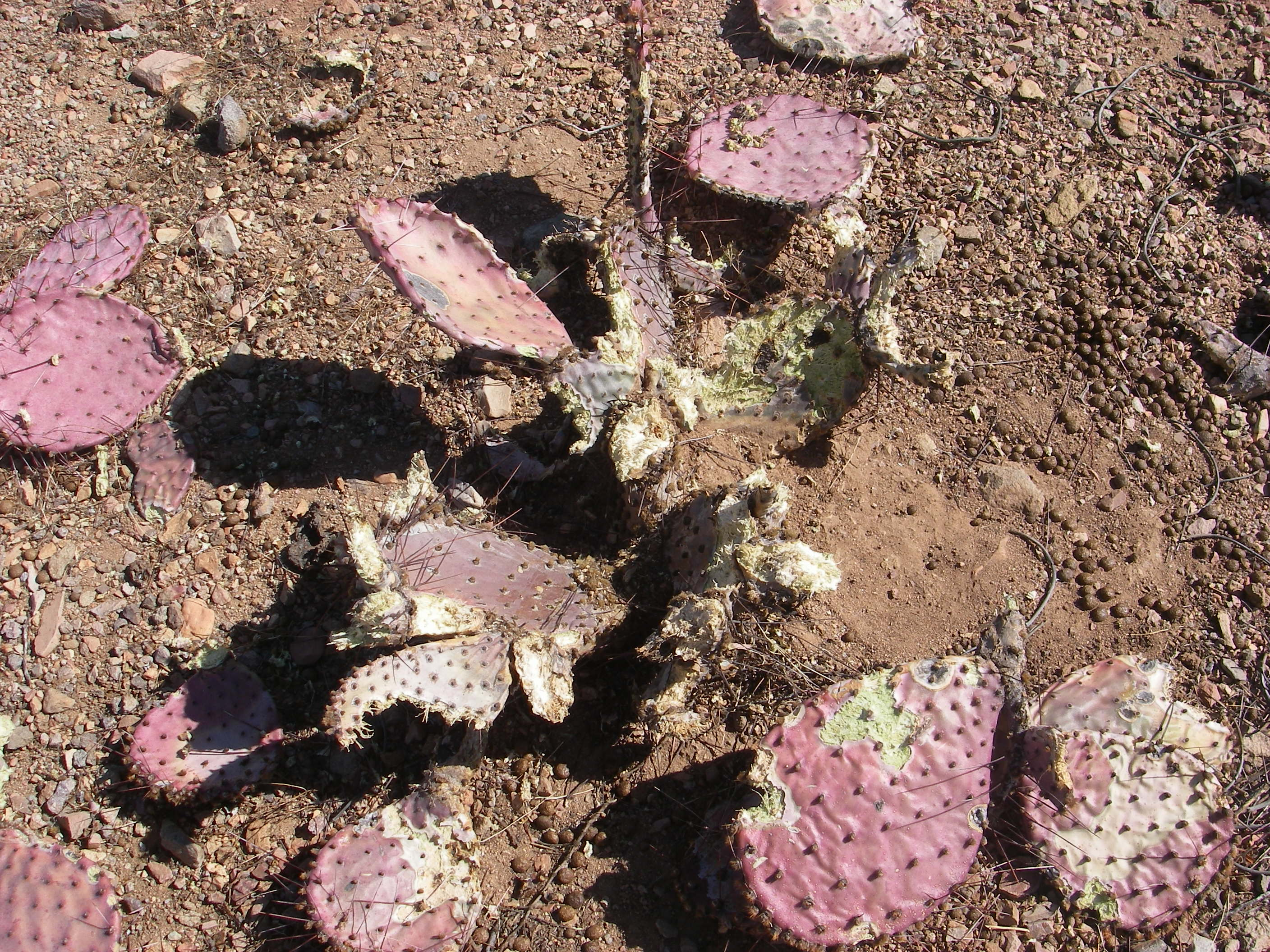 Don't feel sorry for the rabbits, feel sorry for the poor nopales. This was all but destroyed this winter by hungry rabbits, who do nothing but eat and breed.